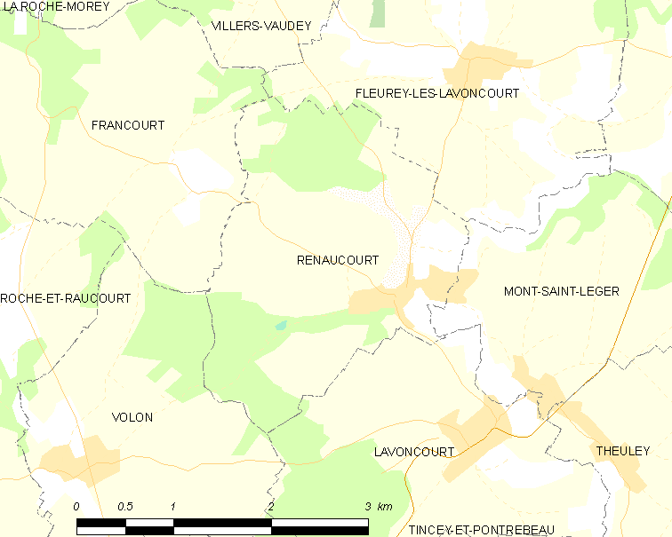 Map of French municipality